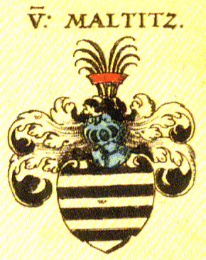 Coat of arms of the noble family "Maltitz"